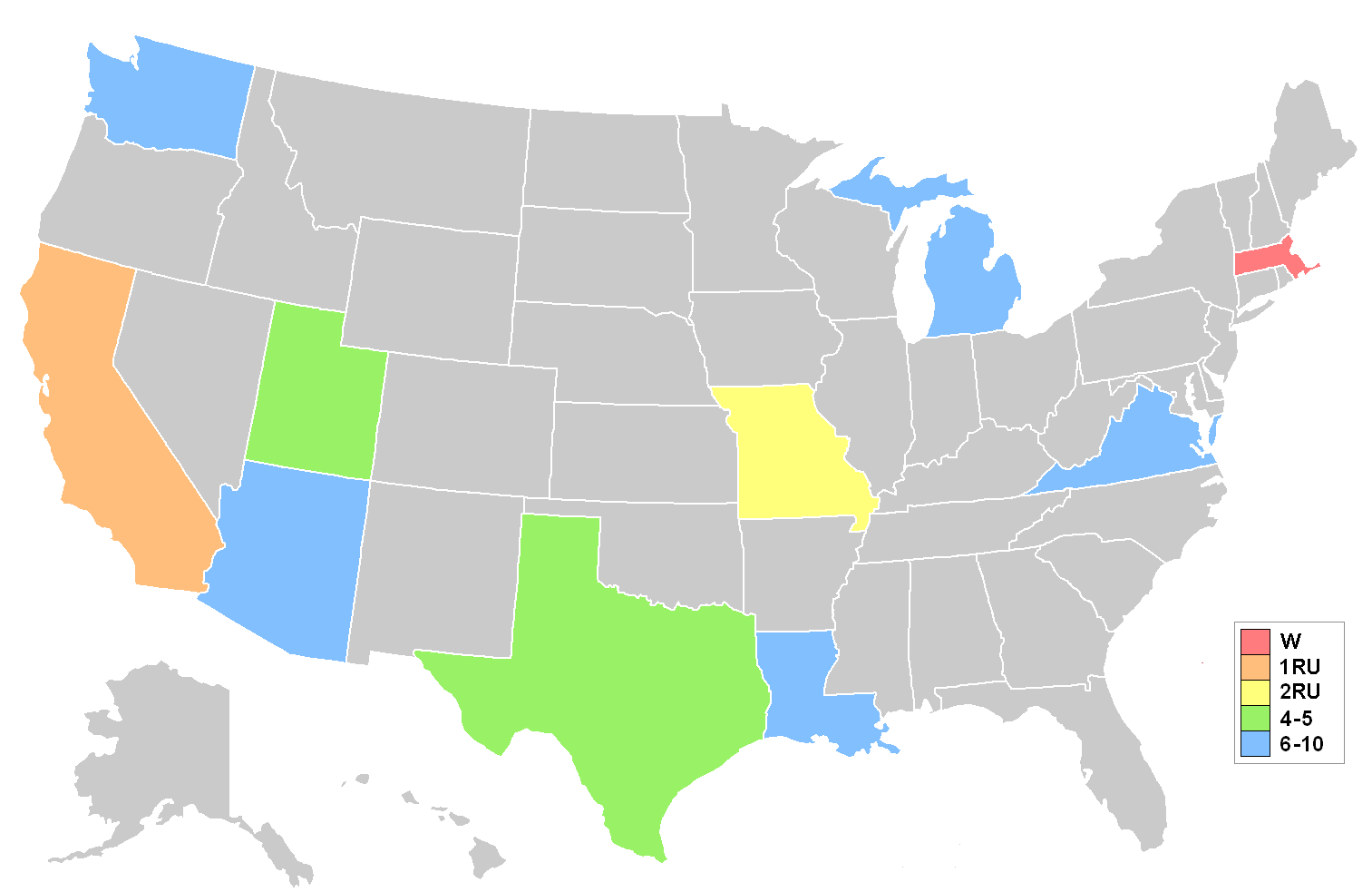 Map showing placements at the Miss USA 1998 pageant. Key on graphic shows colour coding for break down of placements.